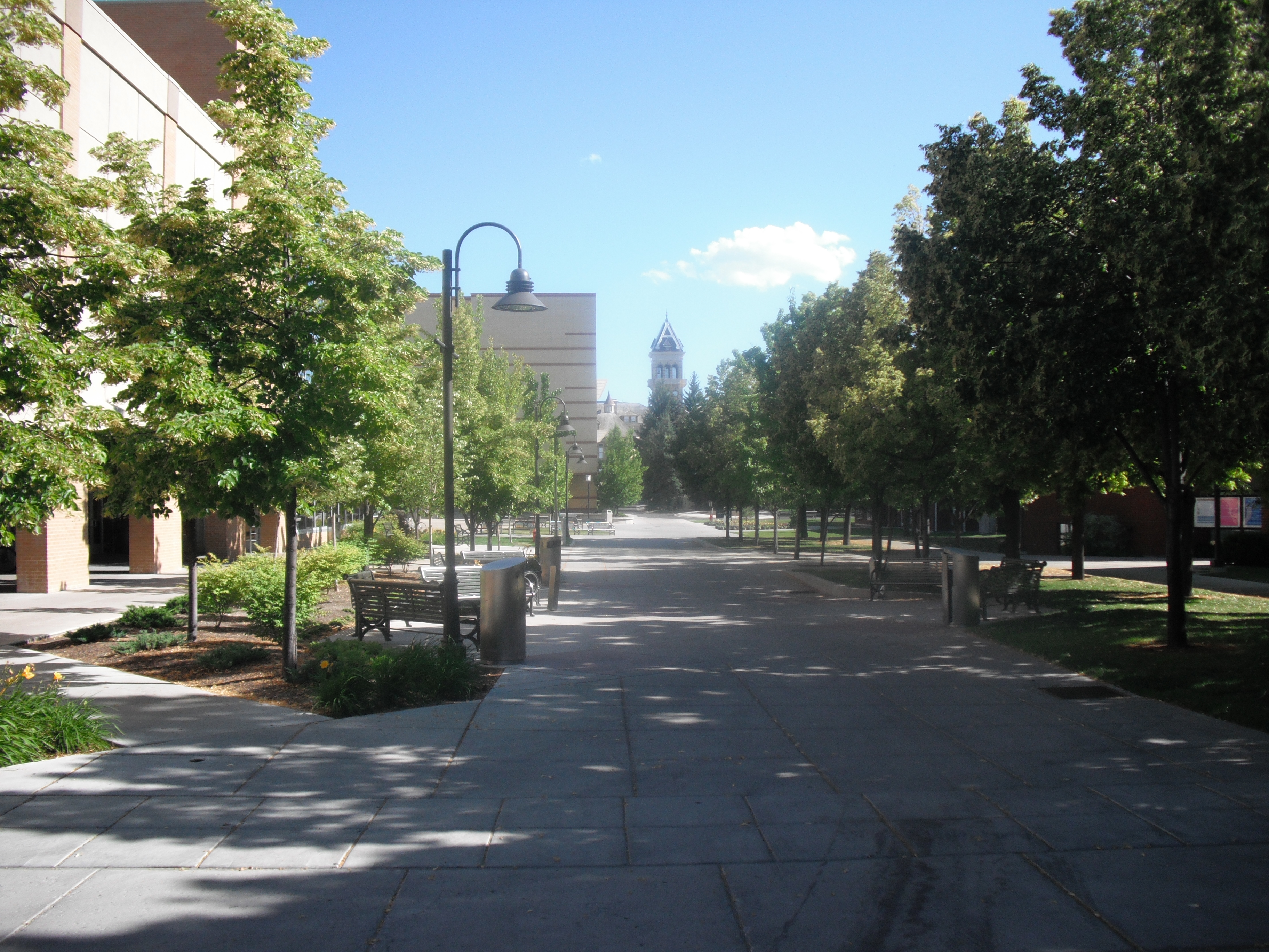 A view from Utah State University, near the Taggart Student Center, with Old Main in the distance